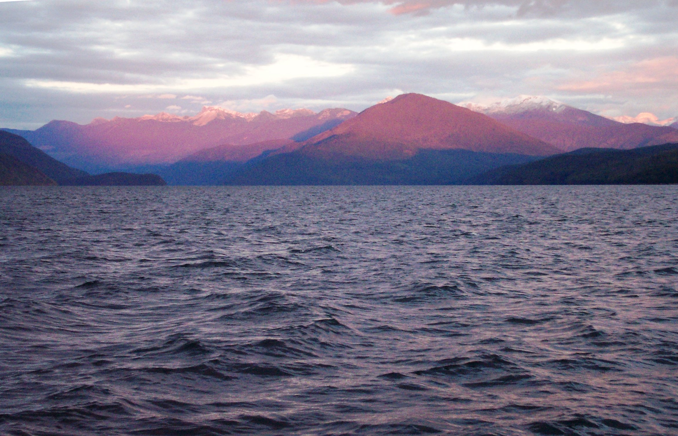 Quesnel Lake.